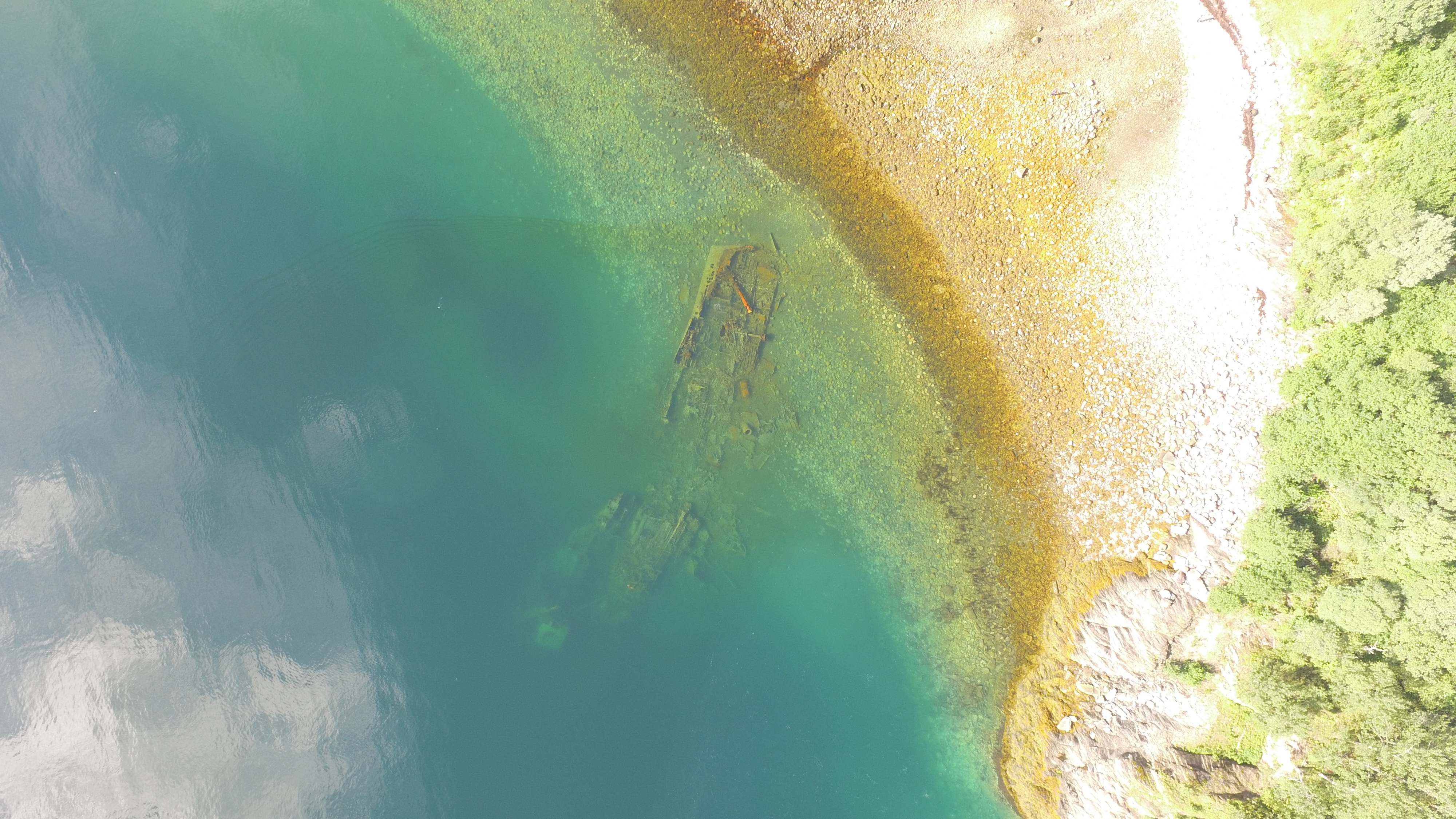 Wreck photographed directly from above by a drone during low tide, 2018